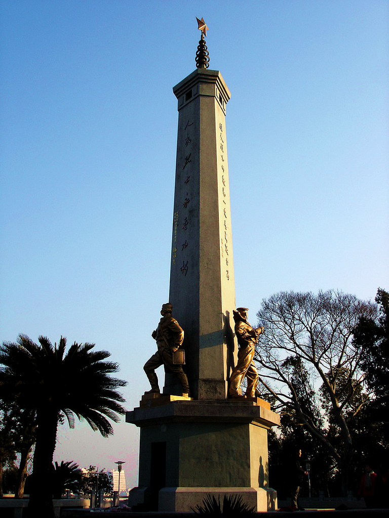 Monument of Yijiangshan Island Battle